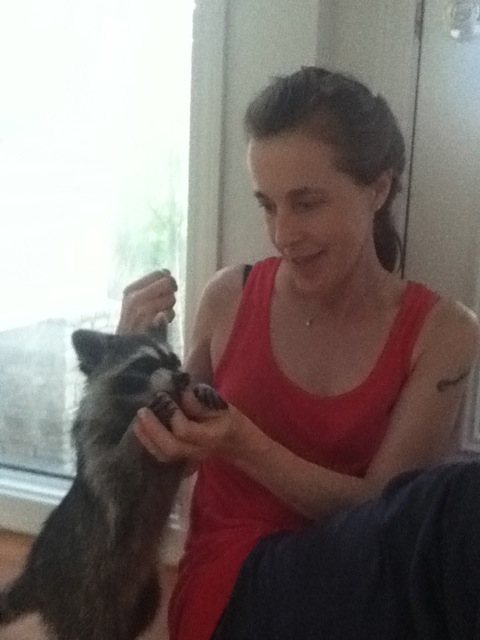 Naomi Wallace and raccoon in Kentucky